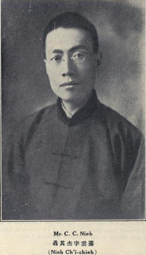 Nie Qijie (Nie Ch'i-chie; C. C. Nieh) or Nie Yuntai (Nie Yün-t'ai) (1880- 1953)